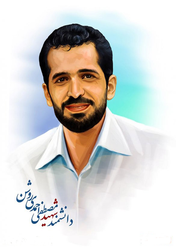 The Portrait of Mostafa Ahmadi-Roshan was an Iranian nuclear scientist and university professor was killed in a bomb blast near Gol Nabi Street, in north Tehran